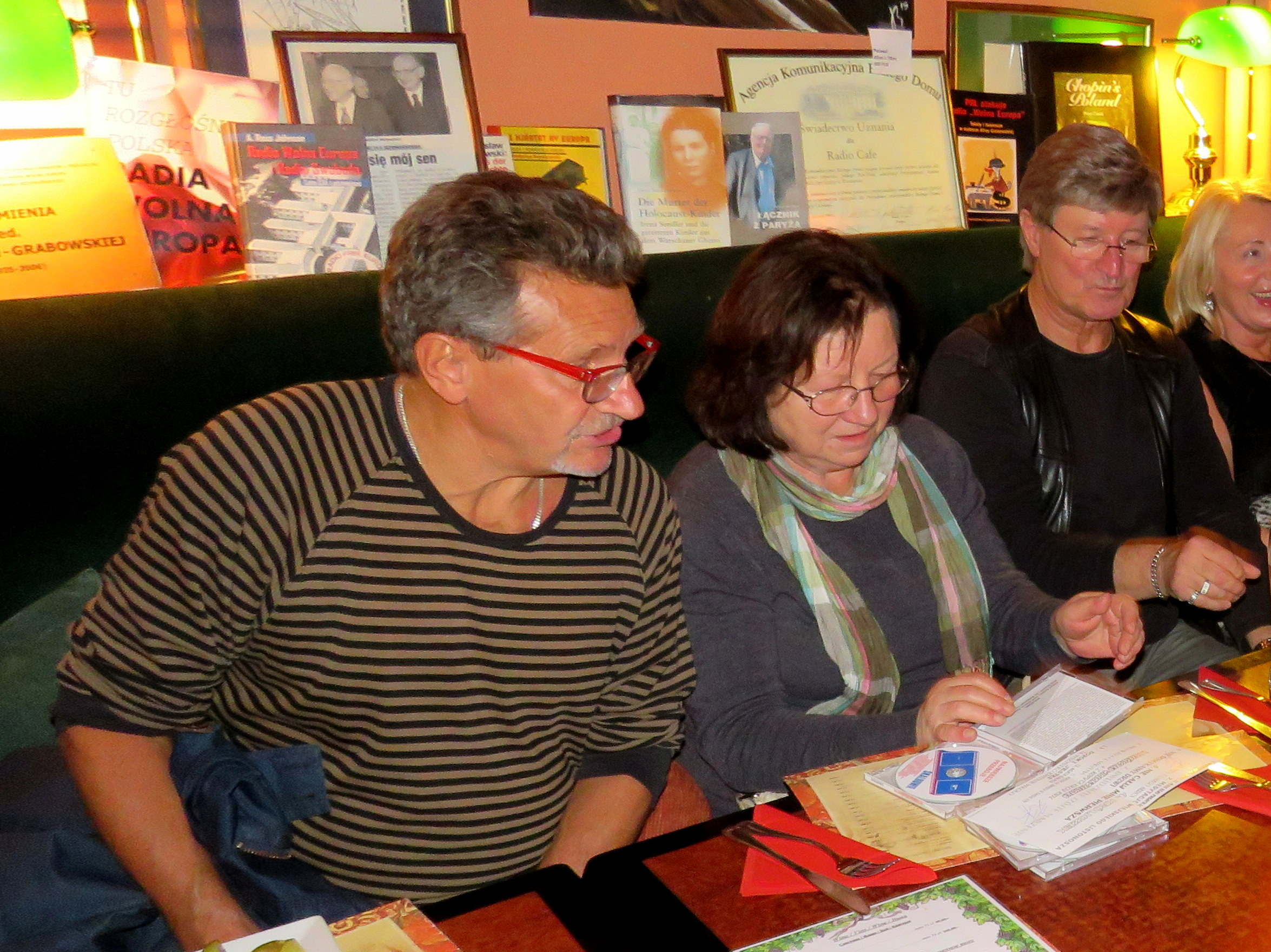 Jacek Zielinski (b. September 6, 1946 in Cracow, Poland) – Polish vocalist, trumpeter, violinist, arranger and composer (Skaldowie) and Elzbieta Wojnowska (b. November 19, 1948 in Częstochowa) – Polish singer, and Jerzy Tarsinski (b. December 21, 1943 in Cracow, Poland) – Polish rock musician, guitarist of Skaldowie.